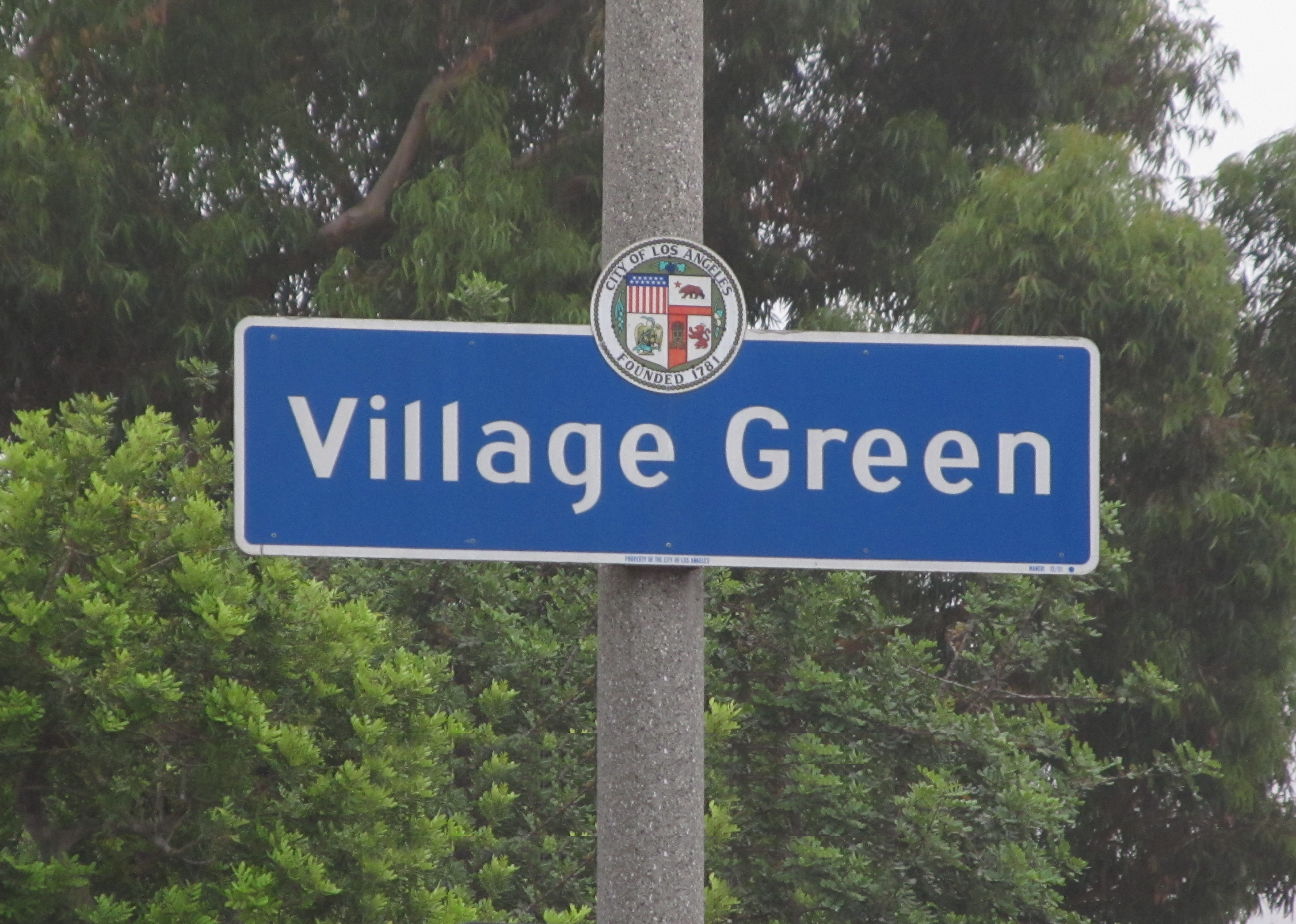 Village Green Signage located at the intersection of Rodeo Road and Hauser Street.